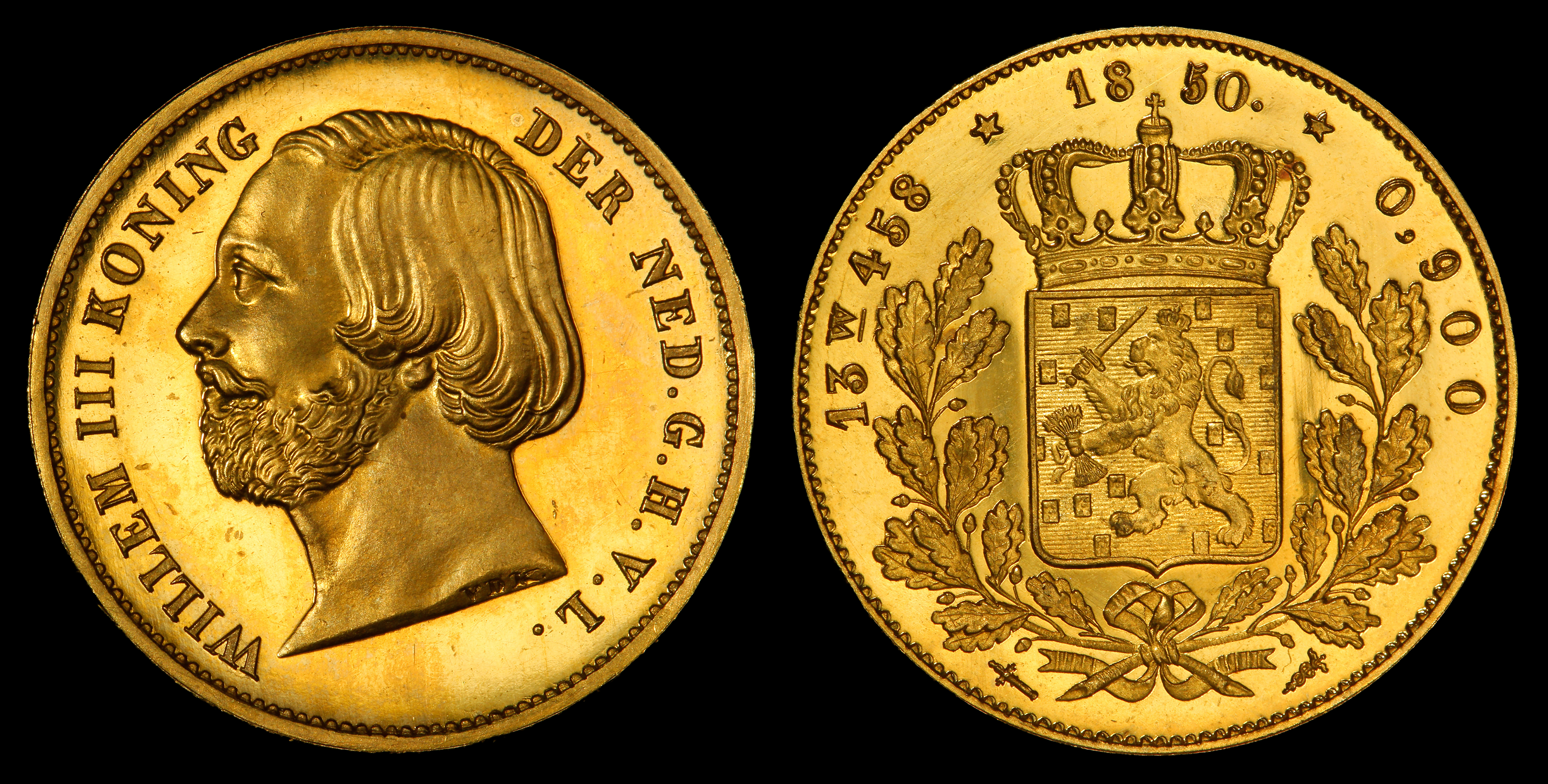 Netherlands-1850-proof